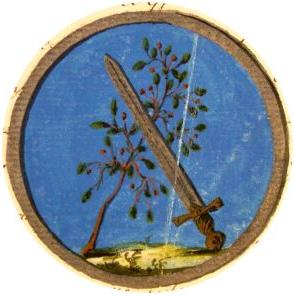 Coat of Arms of Skirsnemunė city in 1792